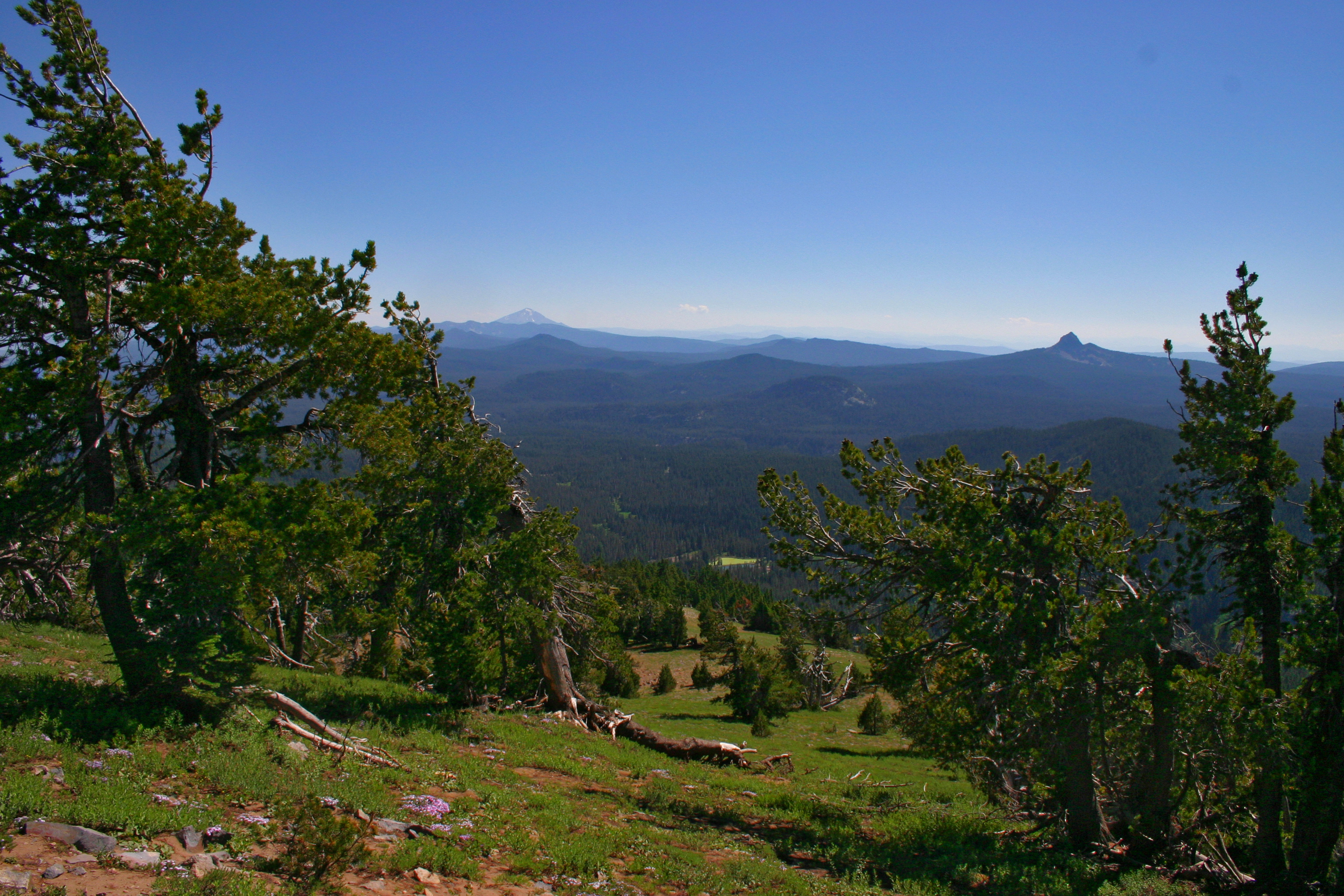 View south from Garfield Peak trail at Crater Lake, with Pinus albicaulis trees